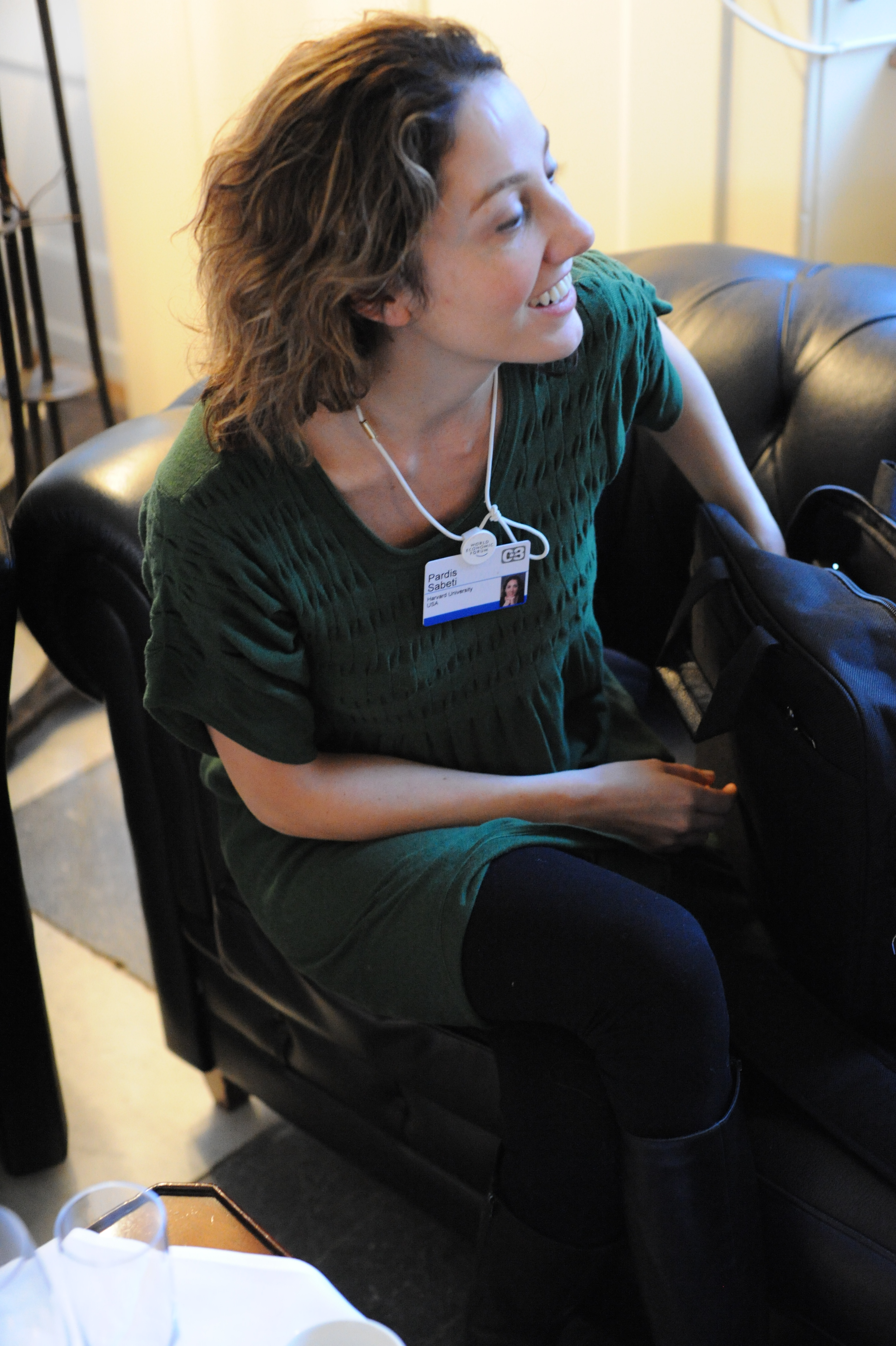 Pardis Sabeti researcher at Harvard University, davos 2008